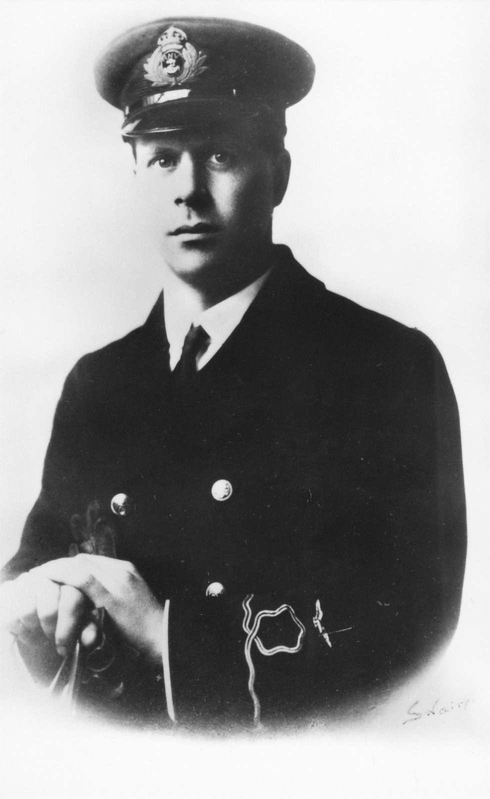 Photograph of Barnes Wallis in RNV uniform